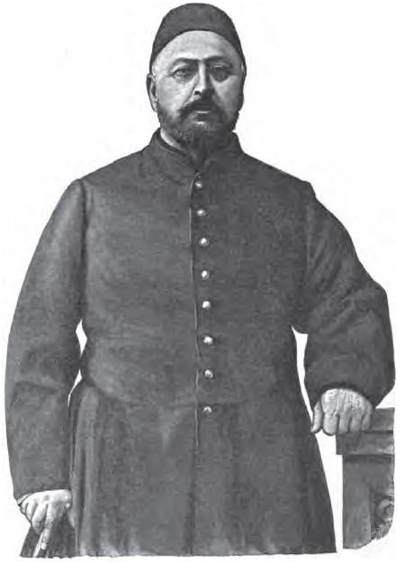 Taken from "A history of all nations from the earliest times" by John Henry Wright published by Lea Brothers & Co. in 1906 Philadelphia and New York. John Henry Wright died in 1908 more than 70 years ago.